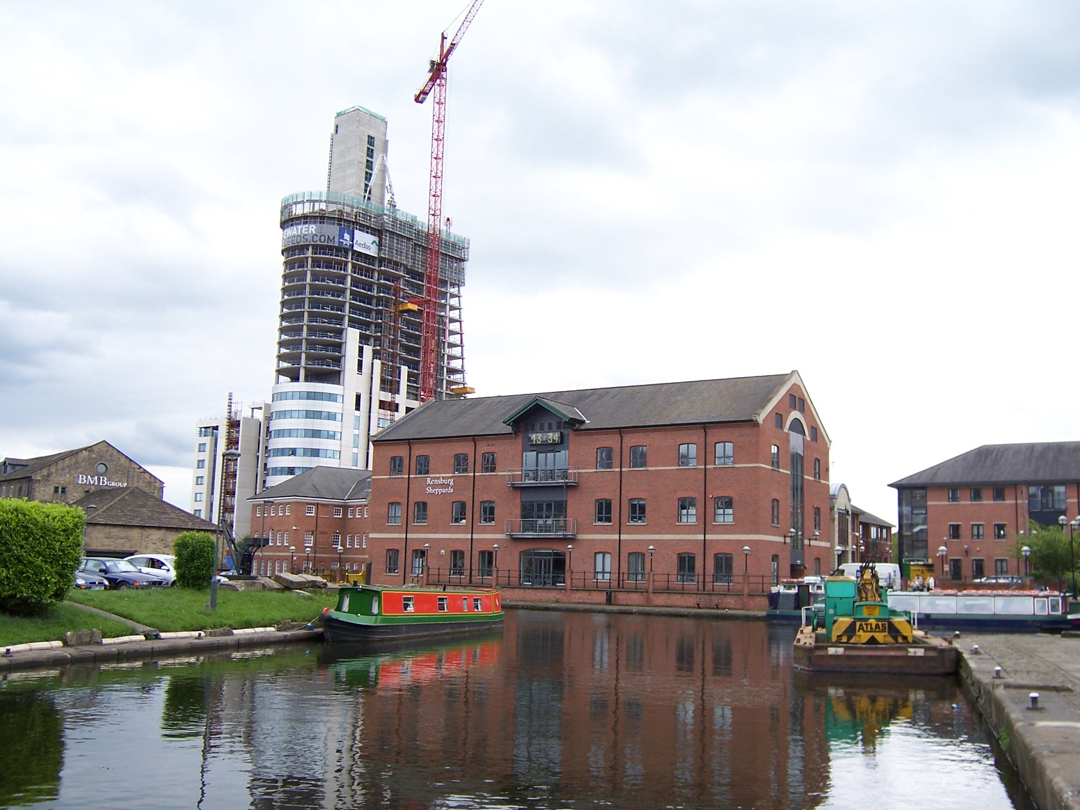 Leeds and Liverpool Canal near Granary Wharf in Leeds, West Yorkshire (England) own work; photo taken on 27 May 2006